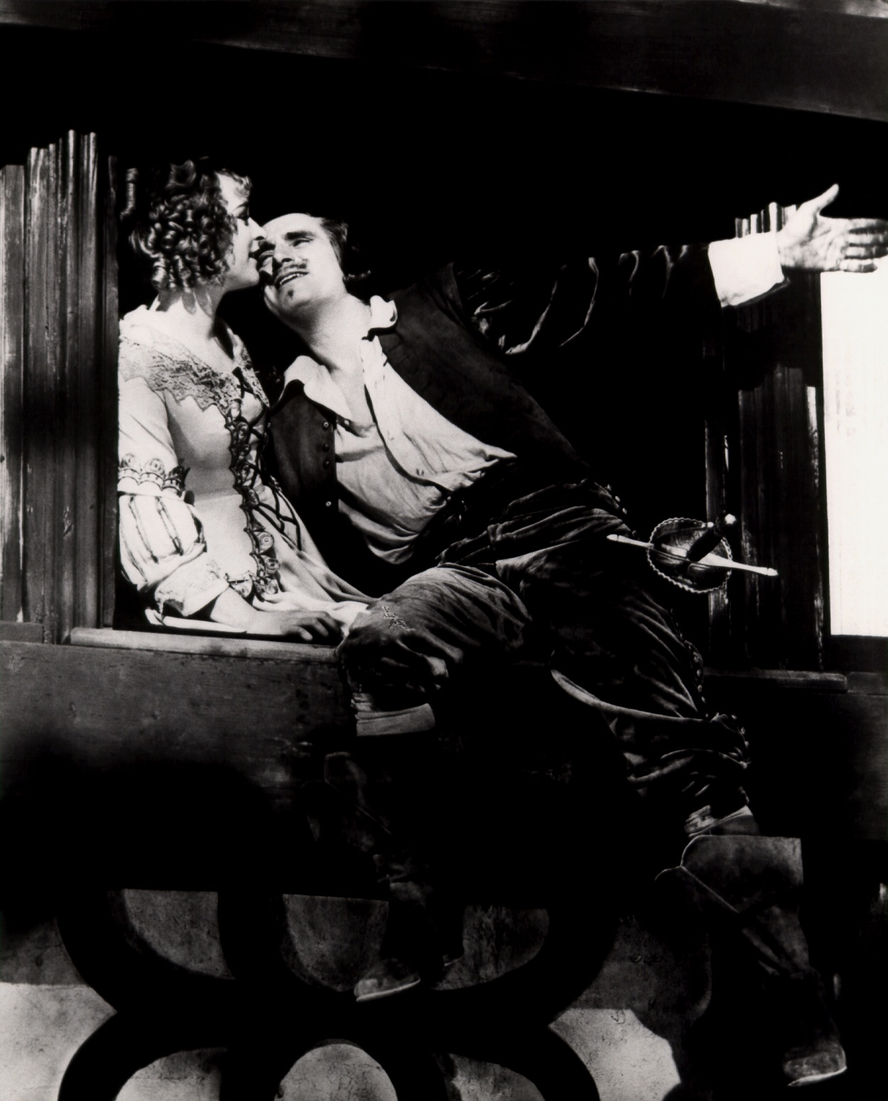 Marguerite De La Motte and Douglas Fairbanks in the film The Iron Mask (1929) - cropped screenshot